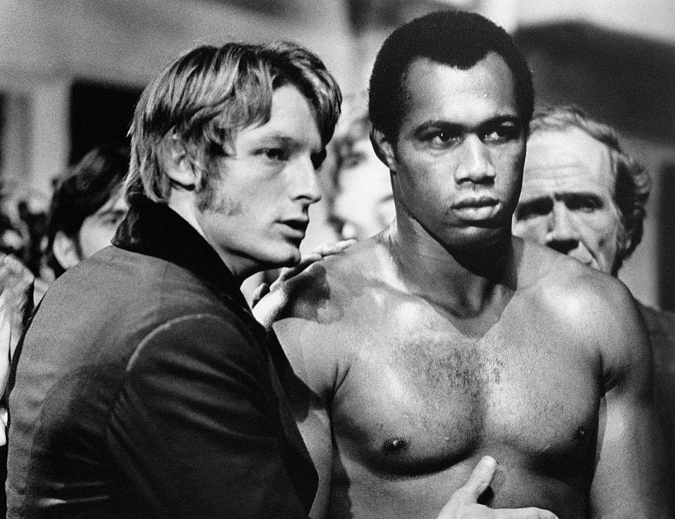 American actor Perry King encouraging American boxer and actor Ken Norton before a fight in the film Mandingo. 1975